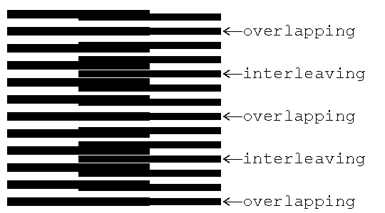 Line Moire, Figure 2. Overlapping and interleaving zones